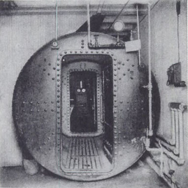 The airlock of 1889 invented by Ernest William Moir (1862-1933)